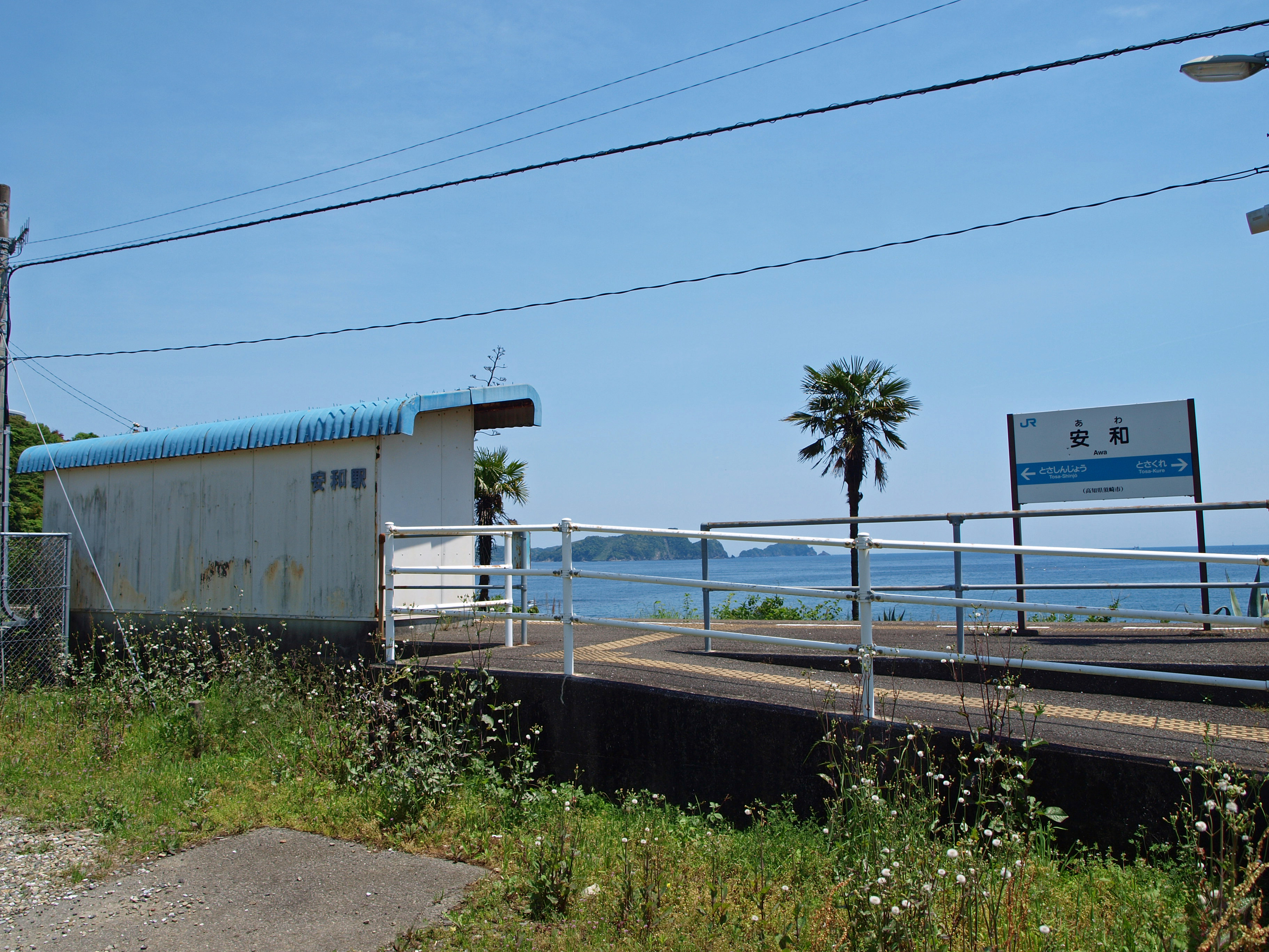 Awa station, Dosan-line, JR Shikoku, Japan